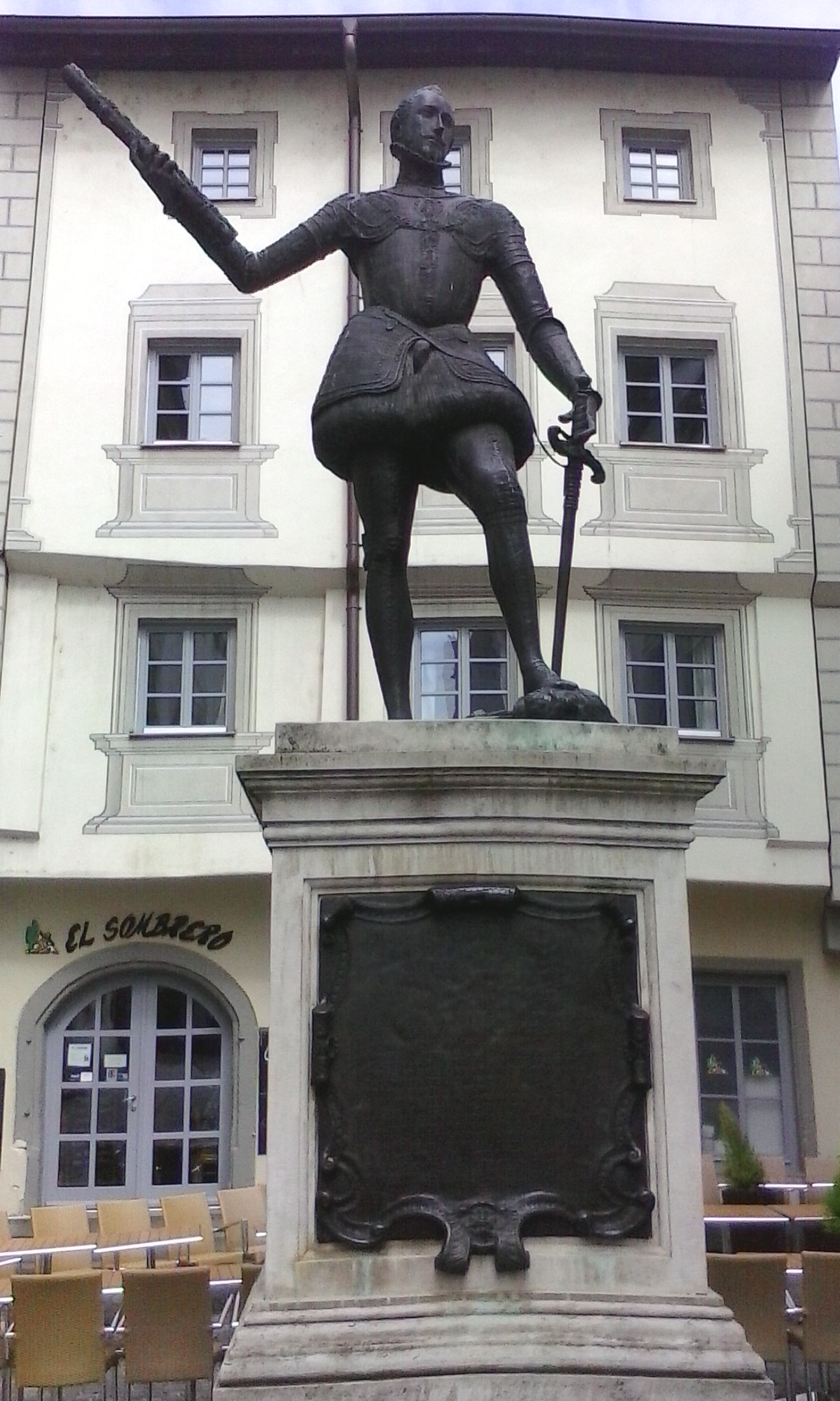 John of Austria statue in Regensburg